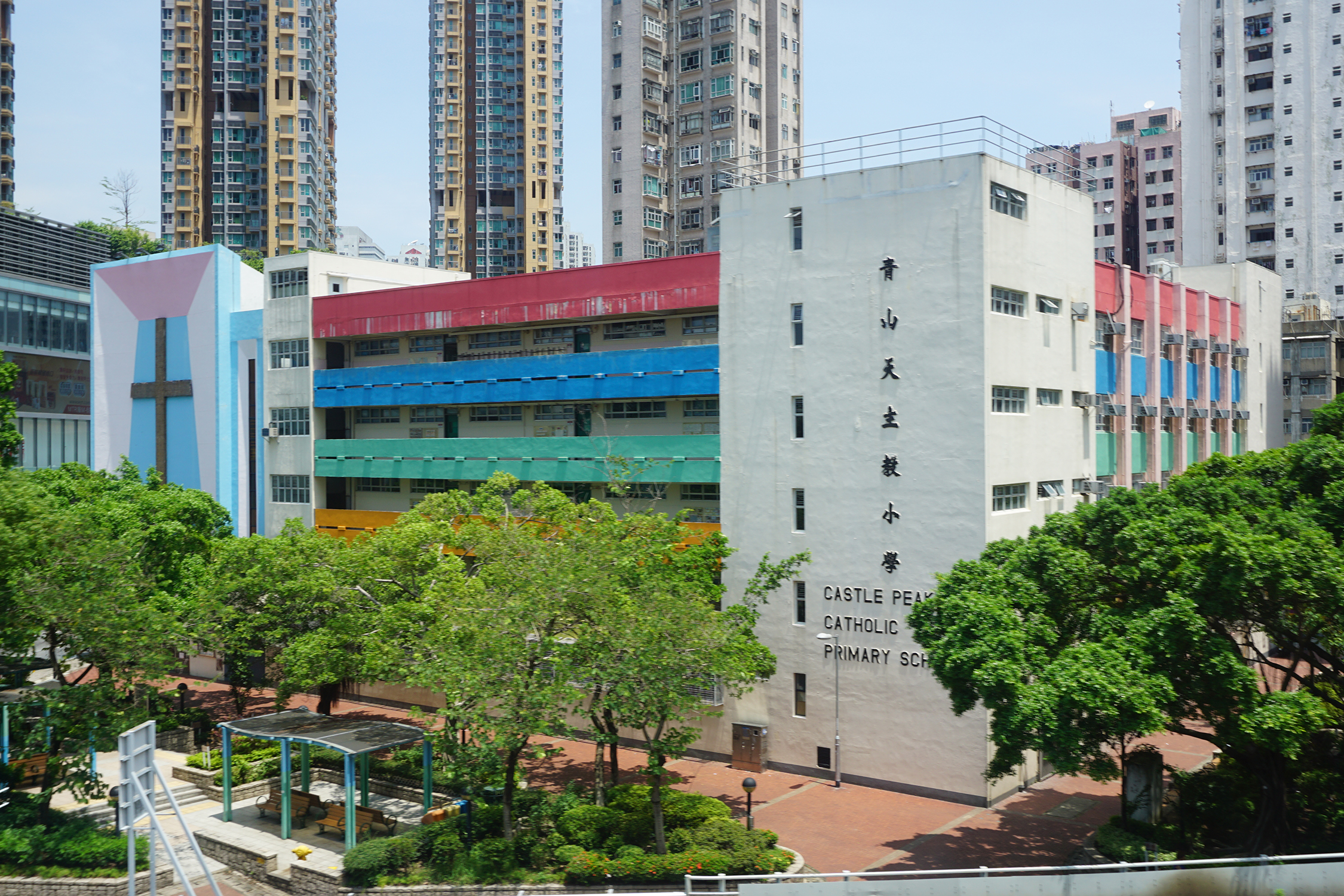 Castle Peak Catholic Primary School in Tuen Mun, Hong Kong.